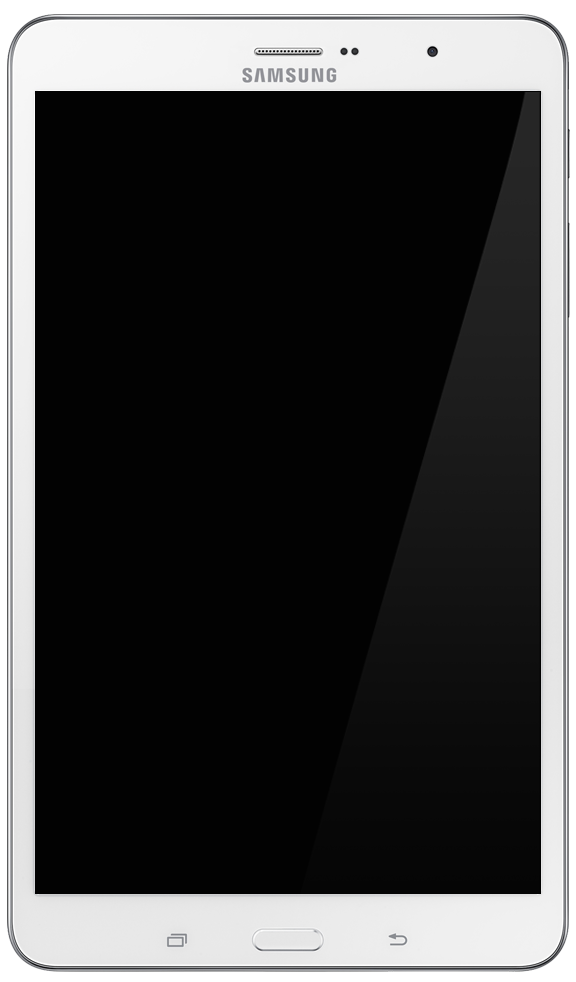 Samsung Galaxy Tab Pro 8.4 render